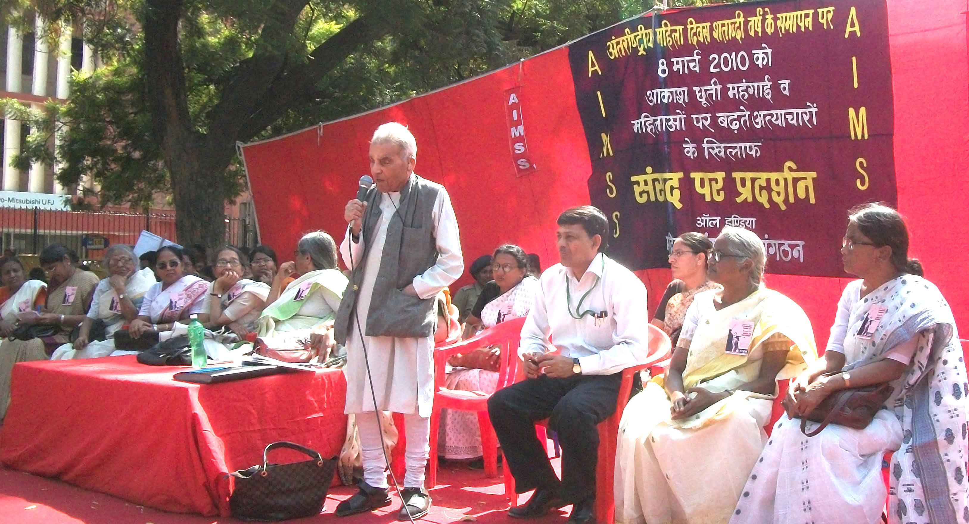 Justice (Rtd) Rajinder Sachar addressing the Parliament March organized by AIMSS on the International Women's Day, 2010. Seated are, to the his left Dr. Tarun Mondal, MP and to his right Chaya Mukherjee, the National President of AIMSS.